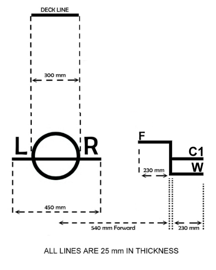 Drawing of a Load Line Mark for a passenger vessel with no subdivisions